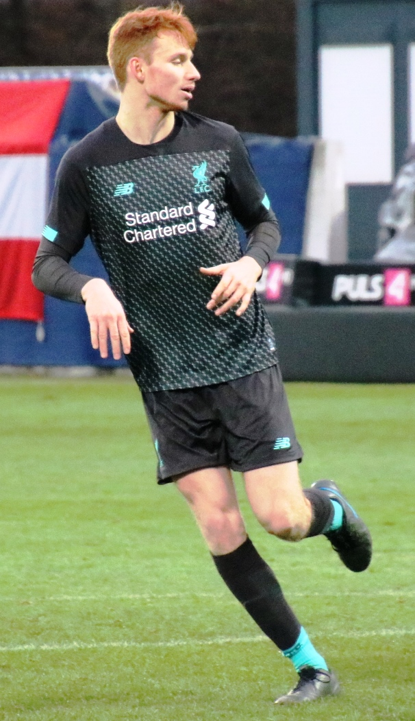 Group stage 6th round